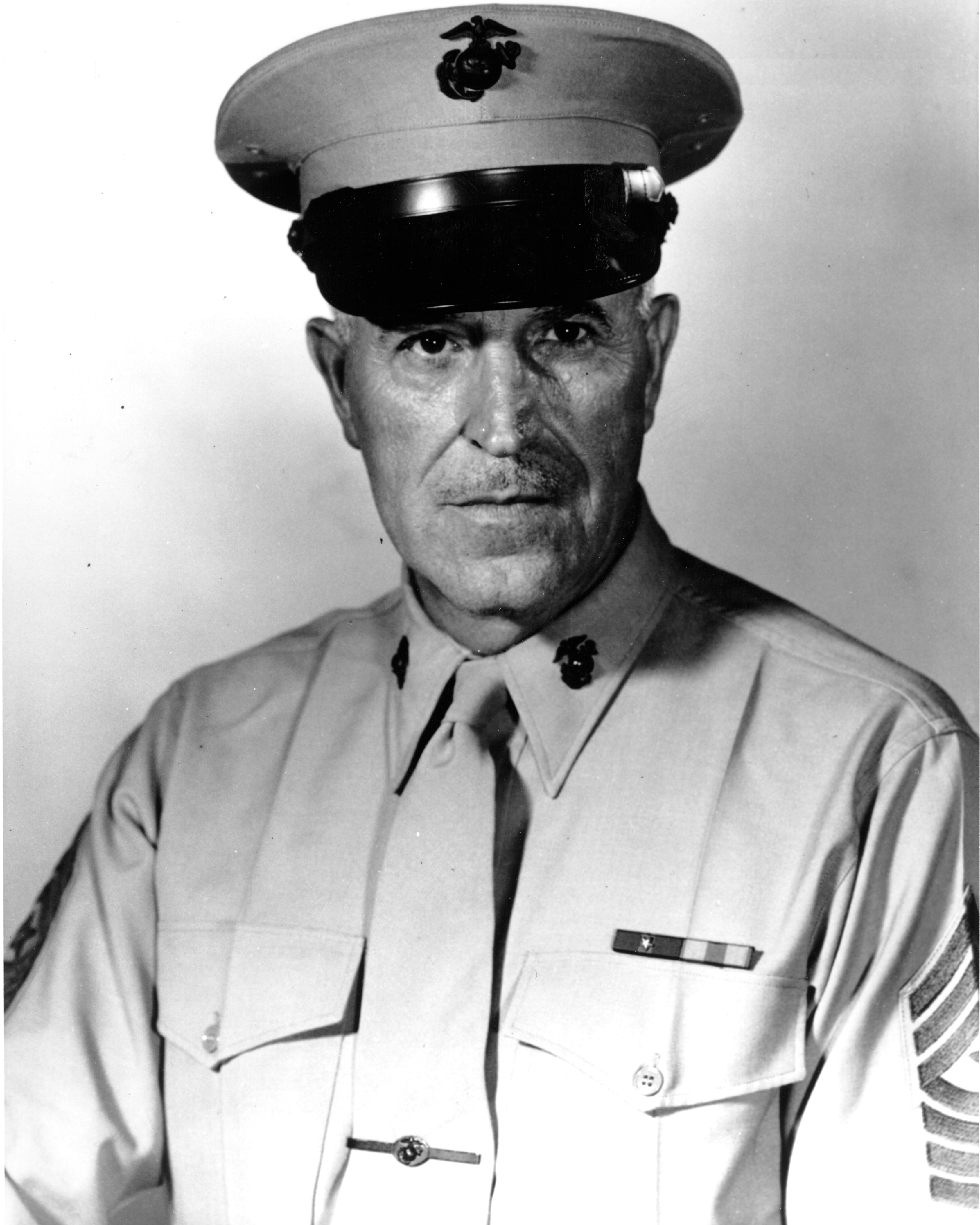 Sergeant Major Francis D. Rauber, USMC. 2nd Sergeant Major of the Marine Corps. Photograph taken by U.S. MARINE CORPS